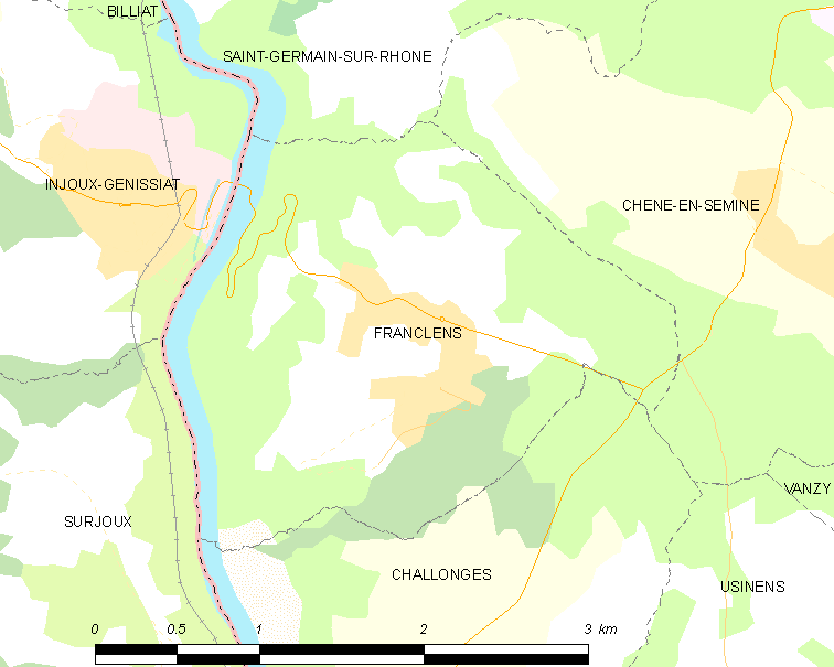 Map of French municipality Franclens